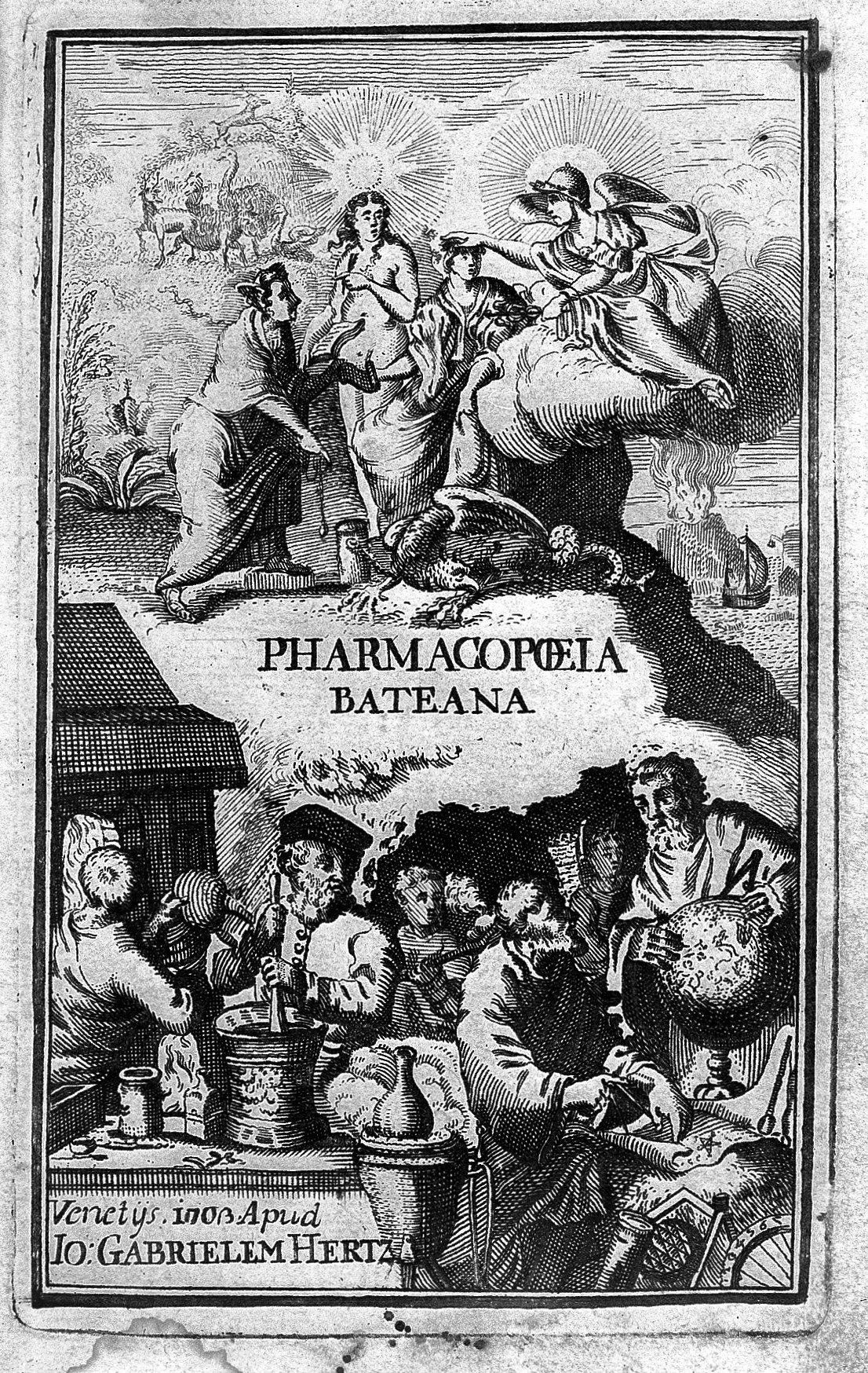 Engraved frontispiece Rare Books